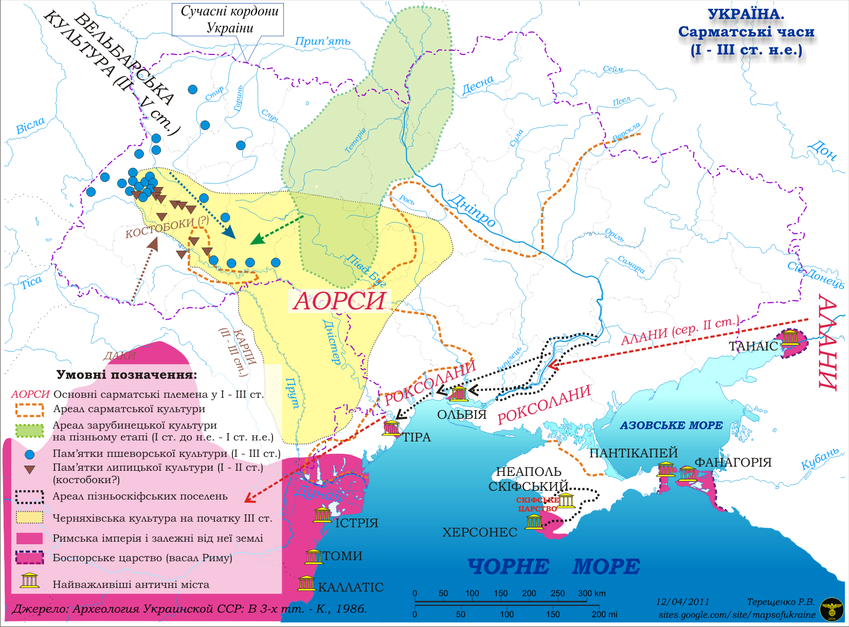 Ukraine. Sarmatian times. I - III century